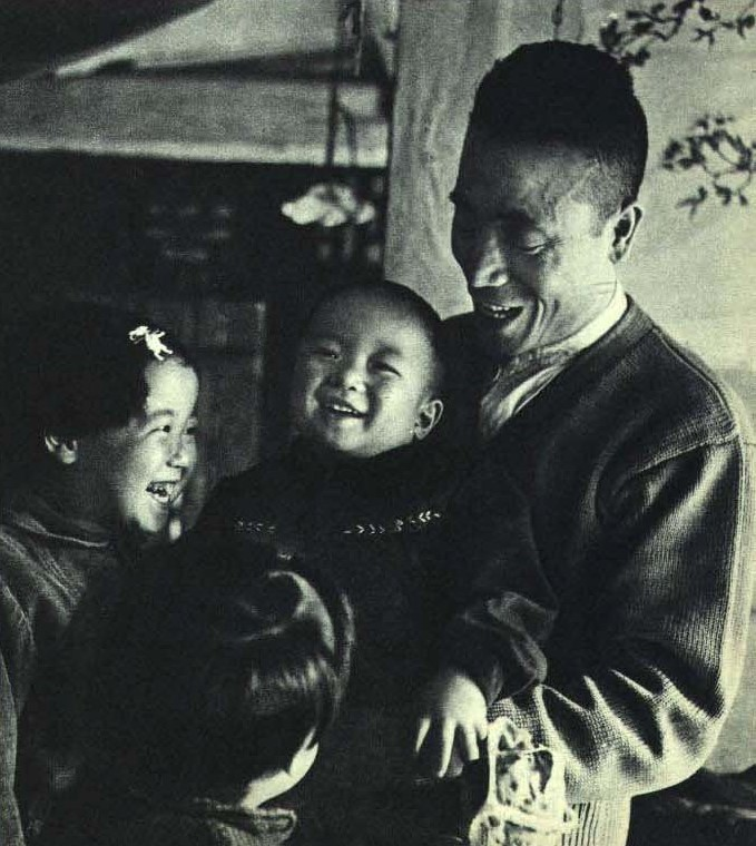 1963-06 1963年 北京 张秉贵